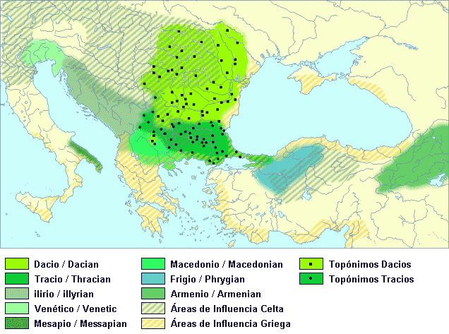 Distribution of Paleo-Balkan languages in Eastern Europe and Asia Minor according to Ivan Duridanov. The map covers the people present in the area between 5th and 1st century BC. It does NOT represent a specific time in that period - it is not a map of a real synchronic situation